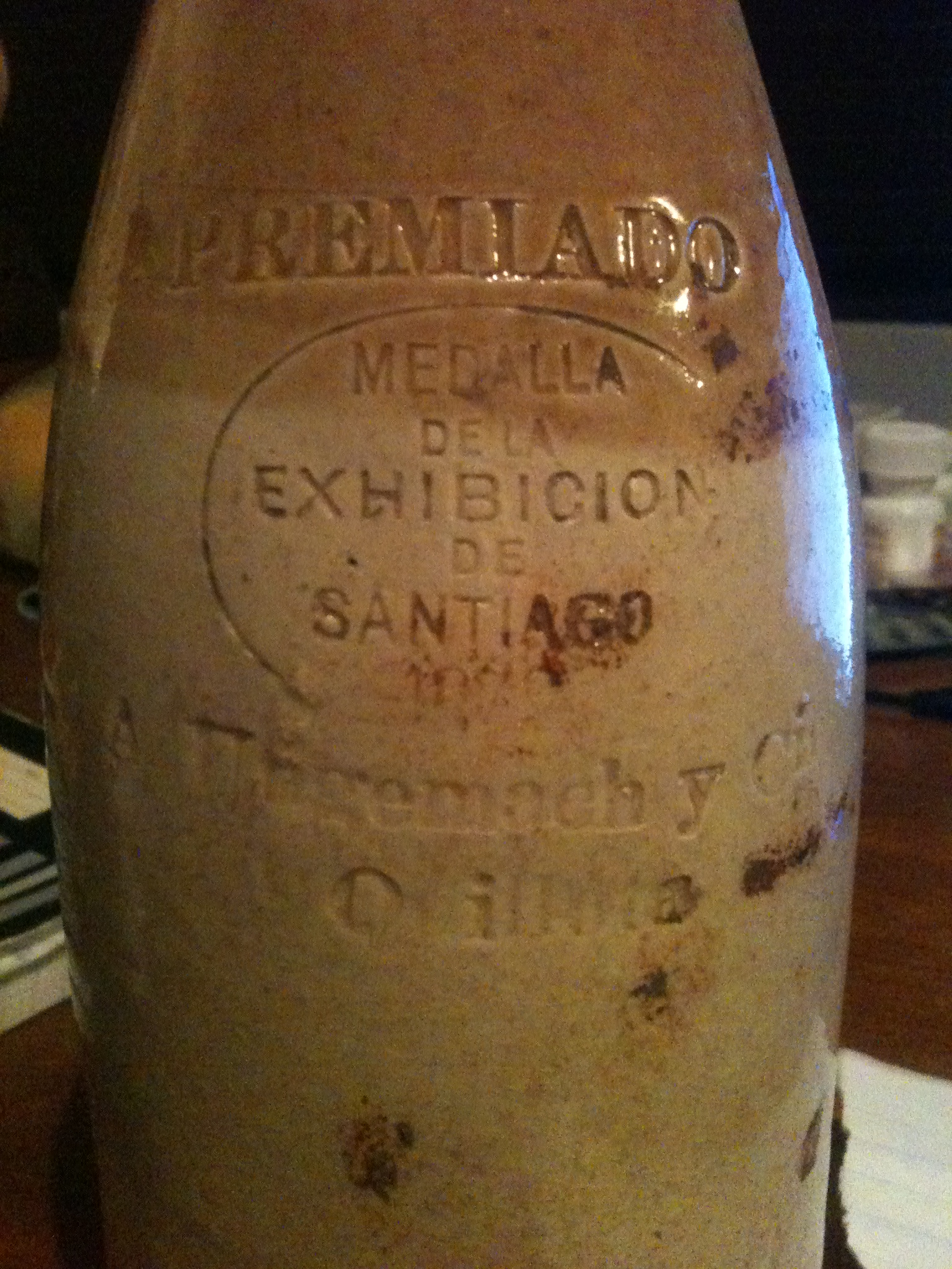 Wine bottle